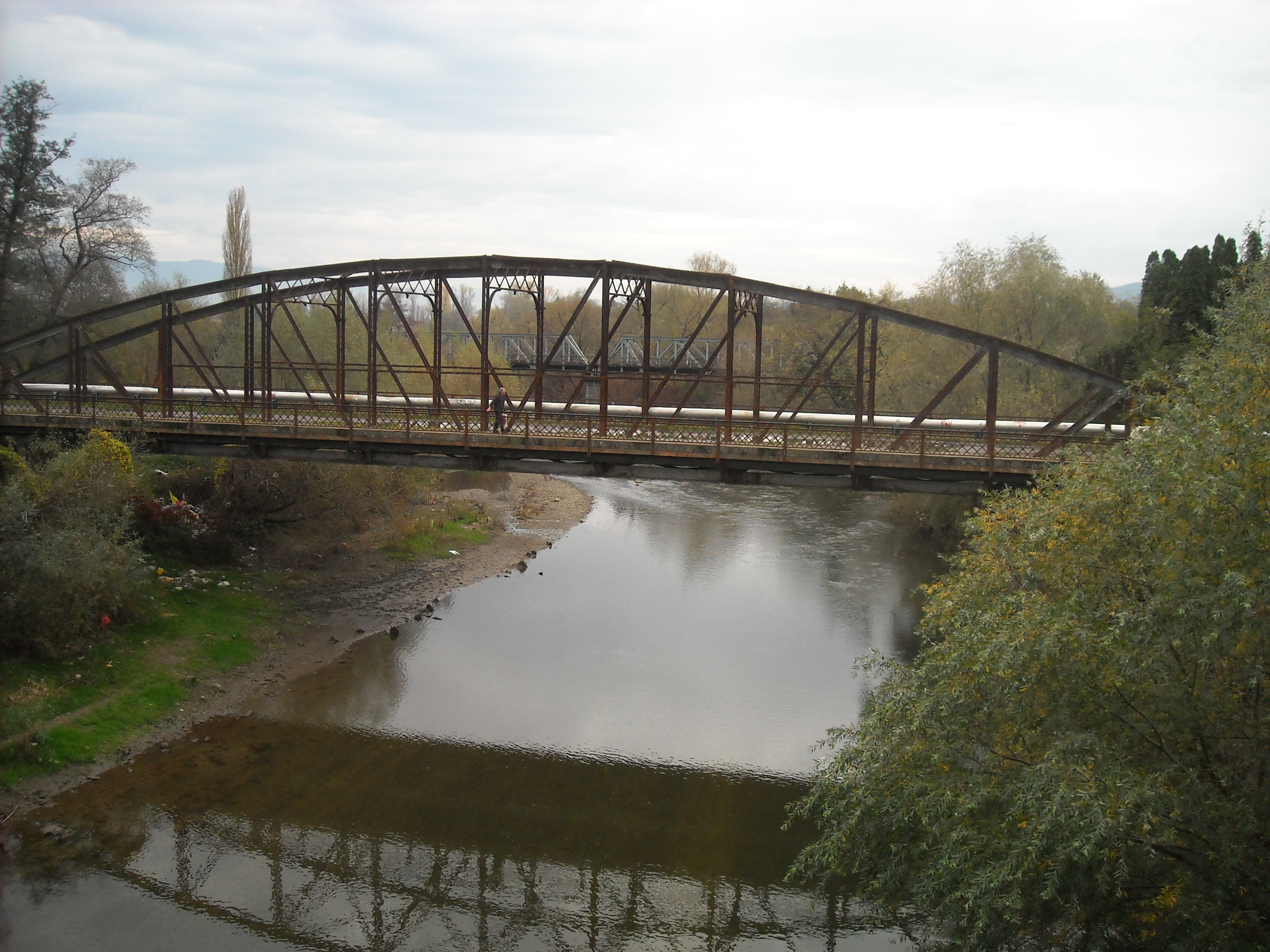 bridge over the River Timiș in Caransebeș